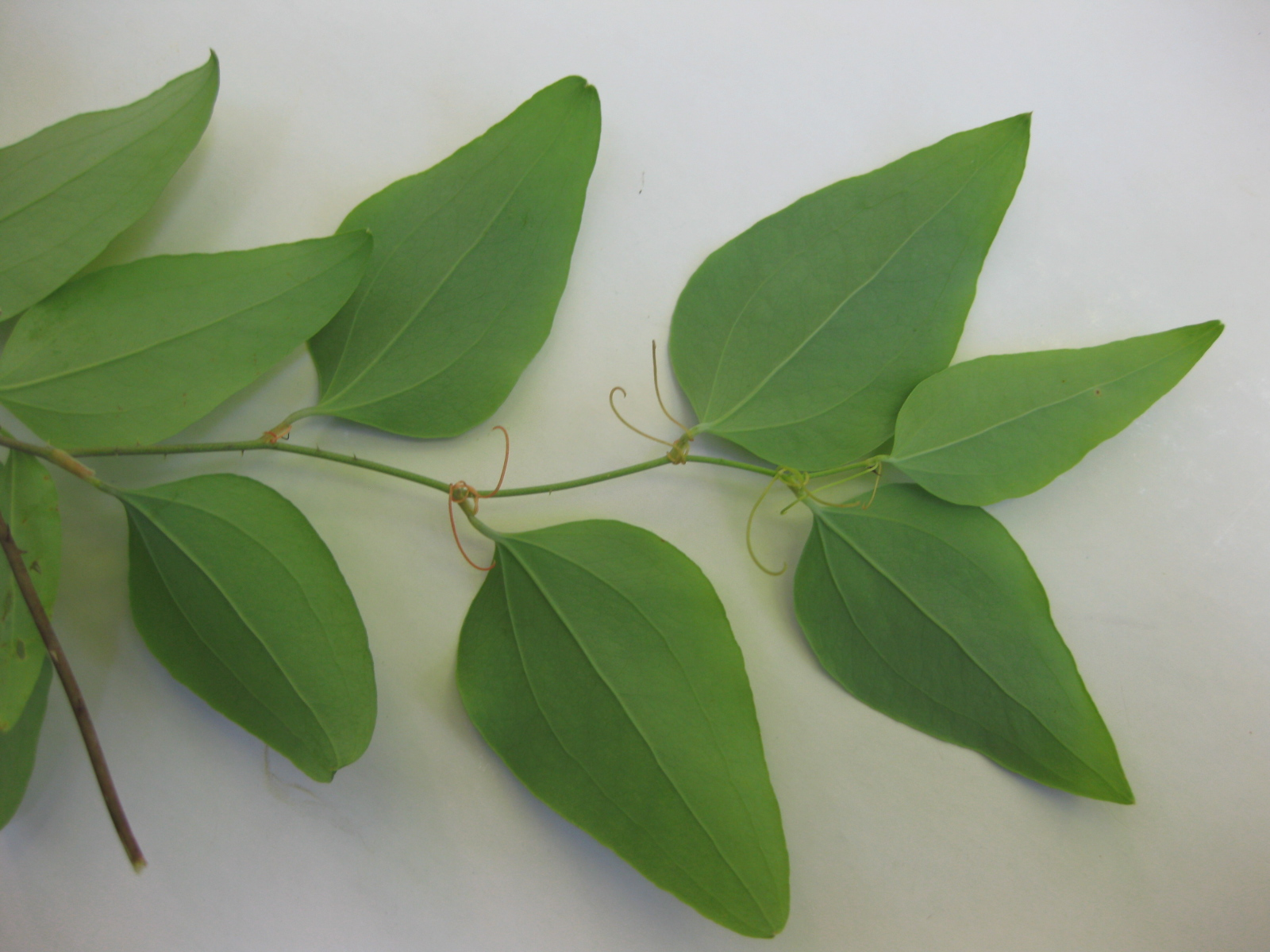 Smilax glauca